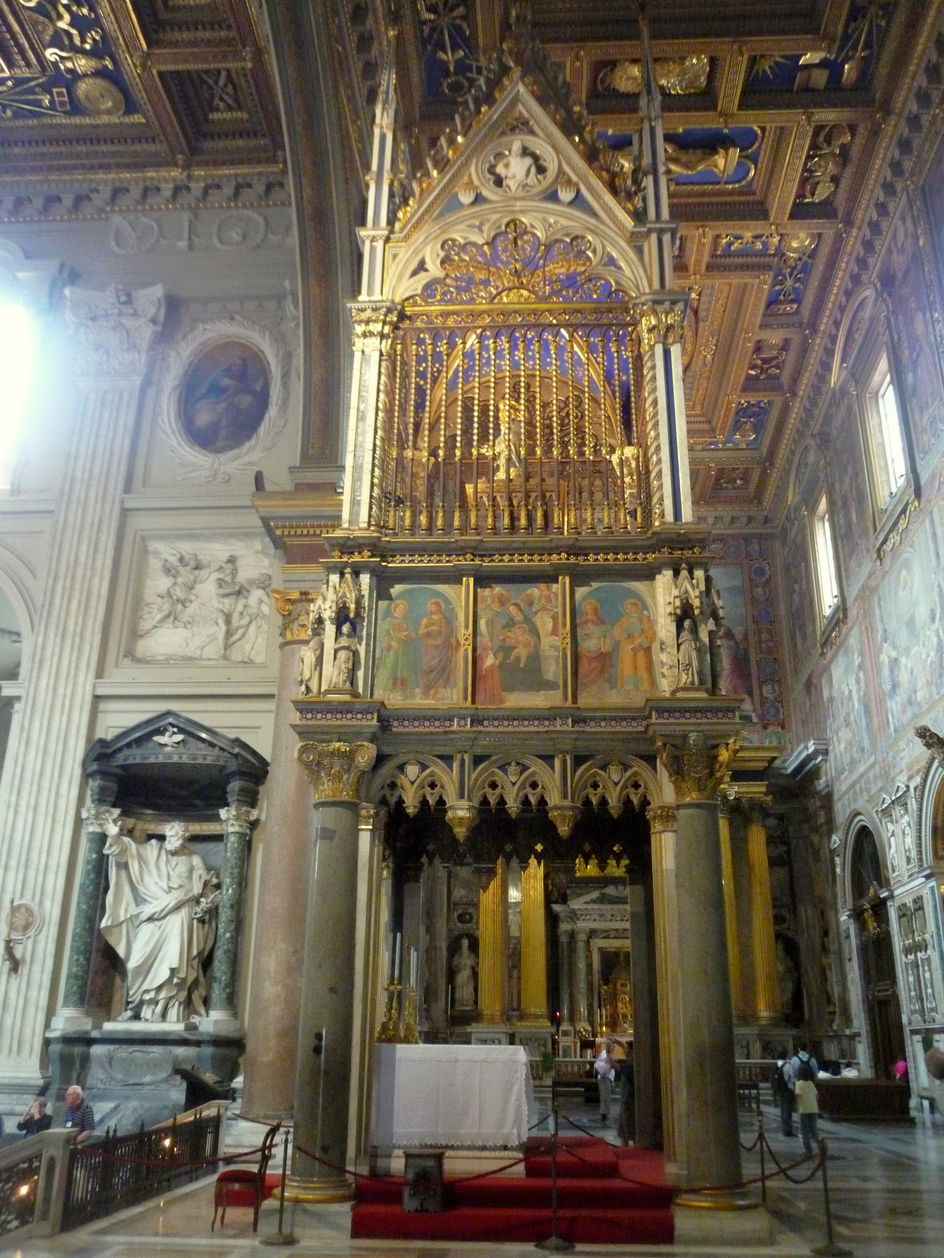 Basilica of St. John Lateran - tabernacle of St. John